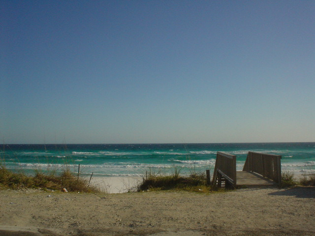 Beach in Destin, FL